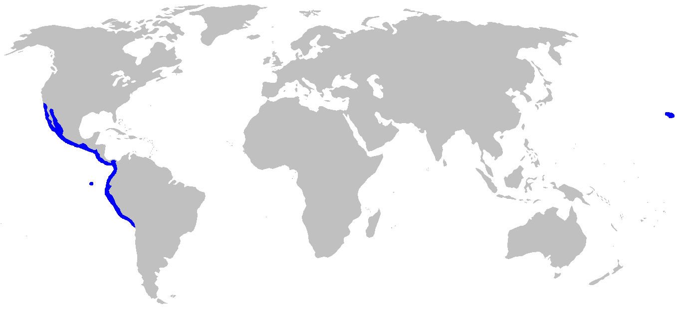 Distribution of the diamond stingray (Dasyatis dipterura)